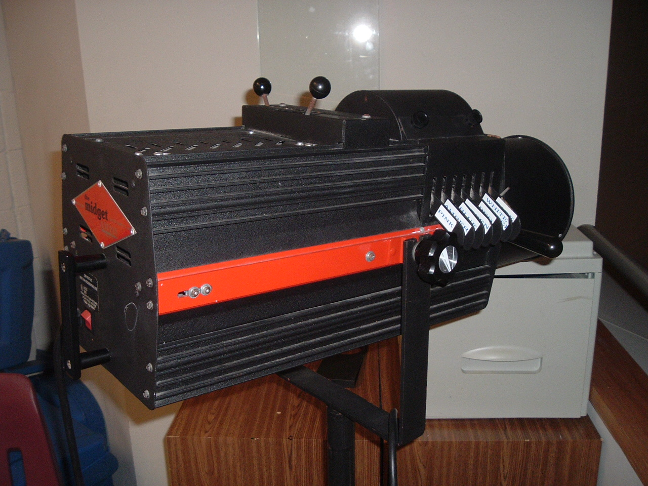 The Lycian- Midget, an incandescent-source miniature Followspot.